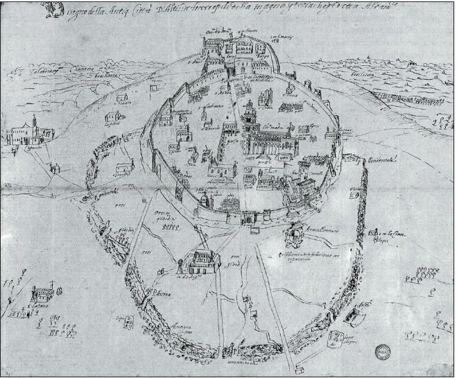 Unknown painter - Sketch of Altamura (G. Pupillo - Altamura - Immagini e descrizioni storiche) (stored in Archivio Generalizio Agostiniano, Biblioteca Angelica, Rome, Carte Rocca P33)